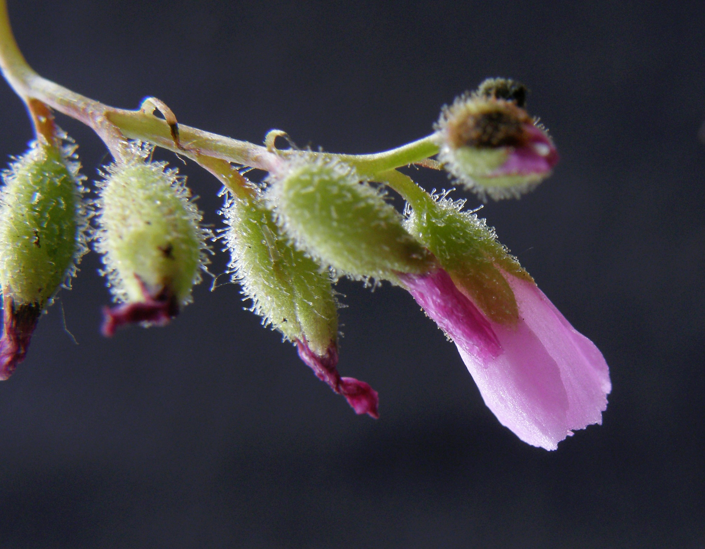 Drosera filiformis